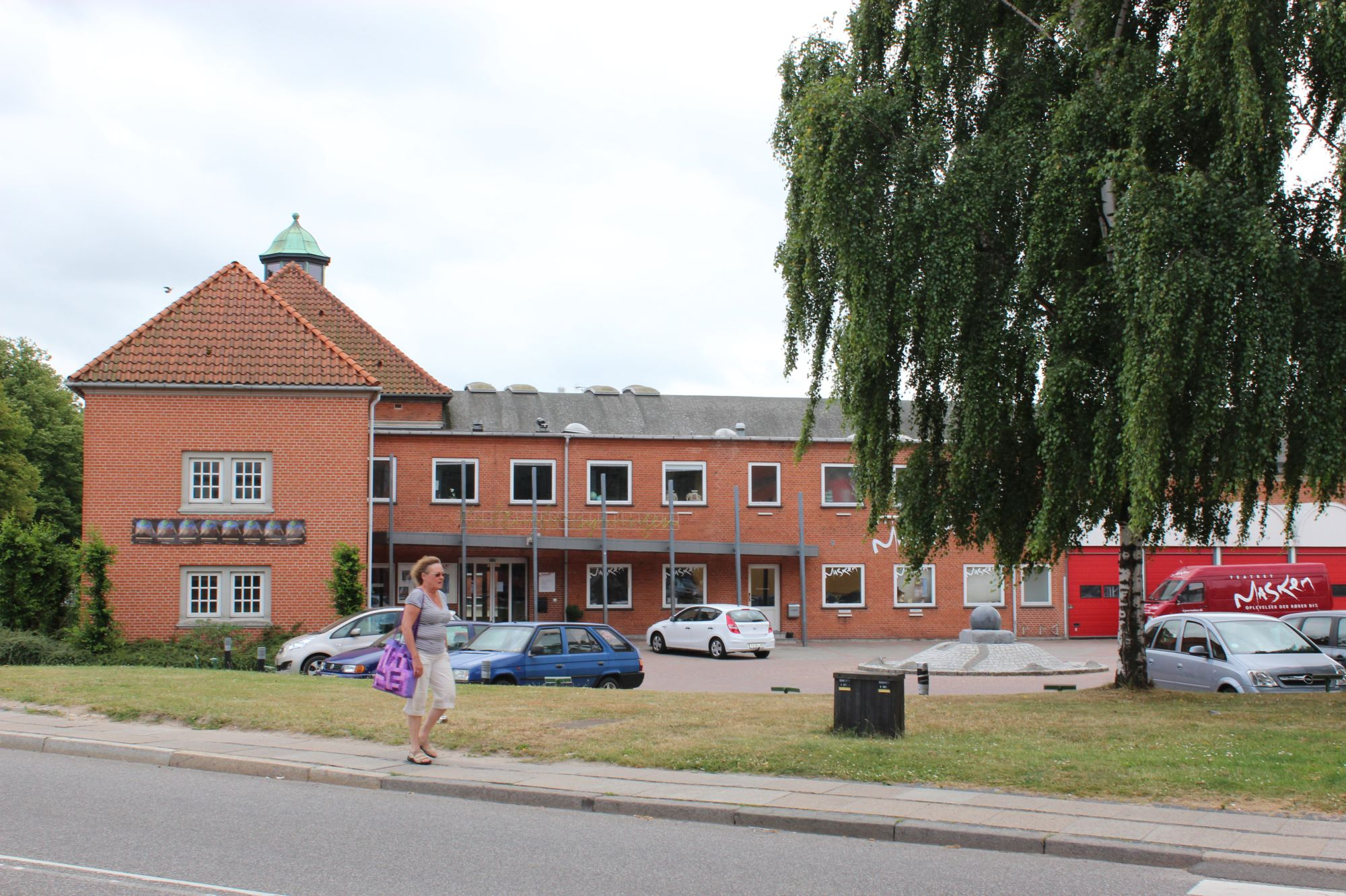 Kulturforsyningen in Nykøbing Falster which also includes the local theater Teatret Masken